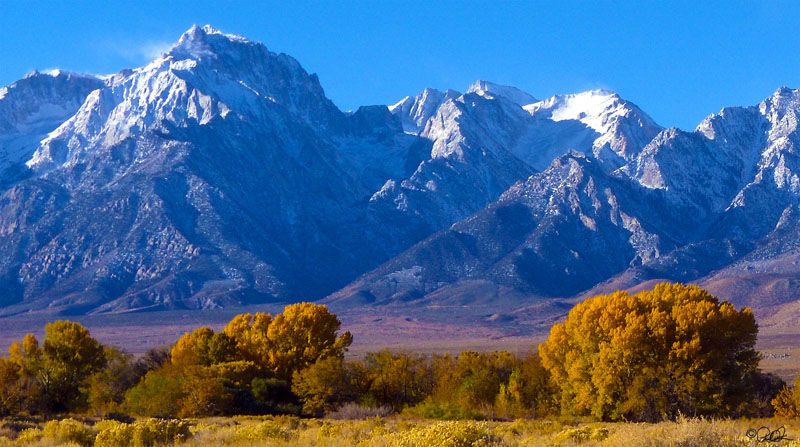 Mount Williamson 14,375 feet (4,382 m) and the Eastern Sierra Nevada of the John Muir Wilderness, rising above Owens Valley.